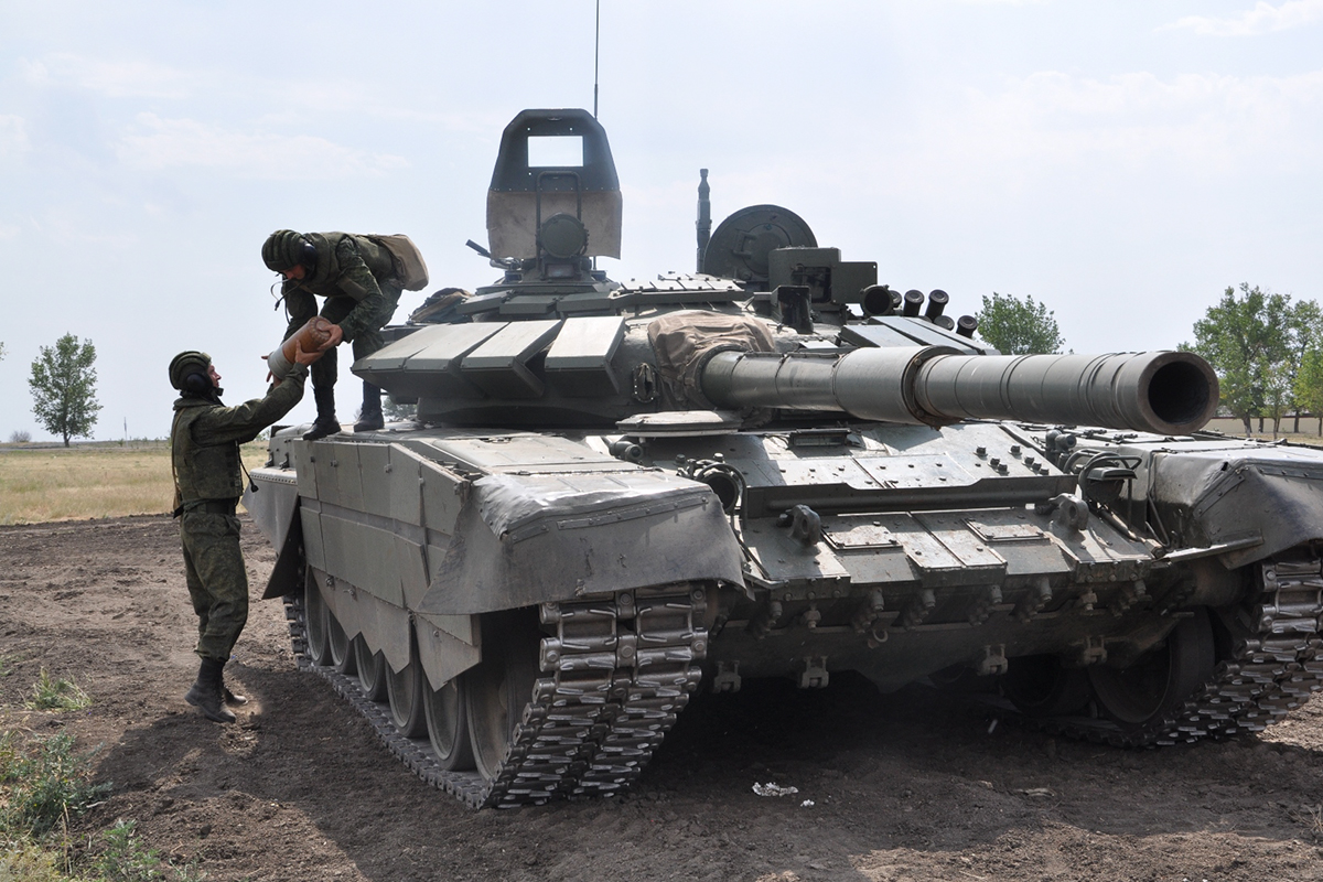 T-72B3 mod. 2016 of the 68th Guards Tank Regiment of the 150th Motor Rifle Division.